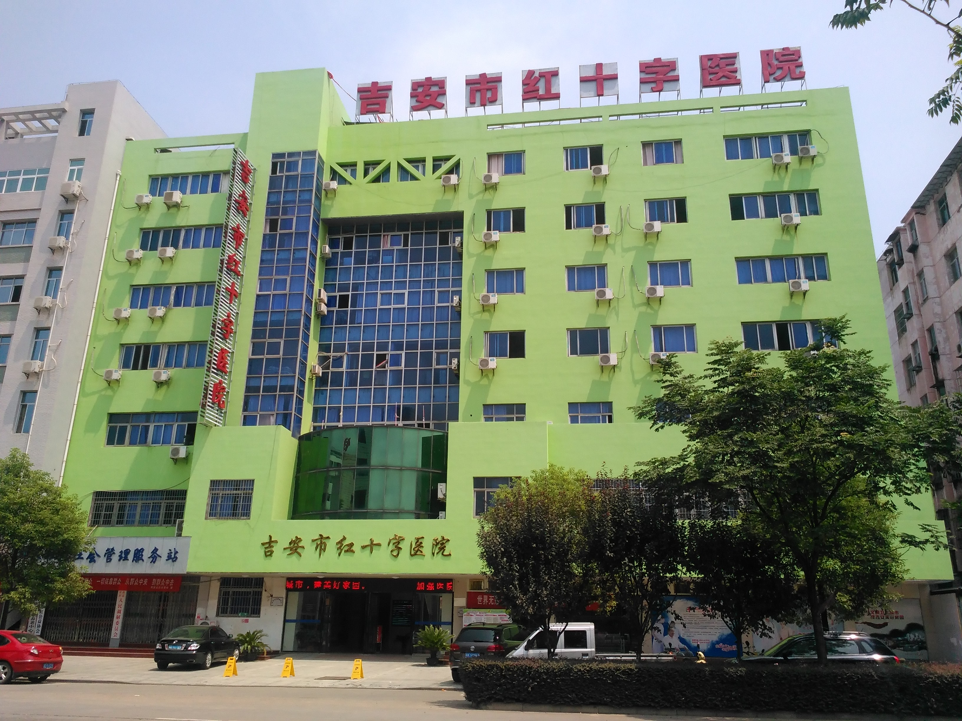 JiAn Red Cross Hospital